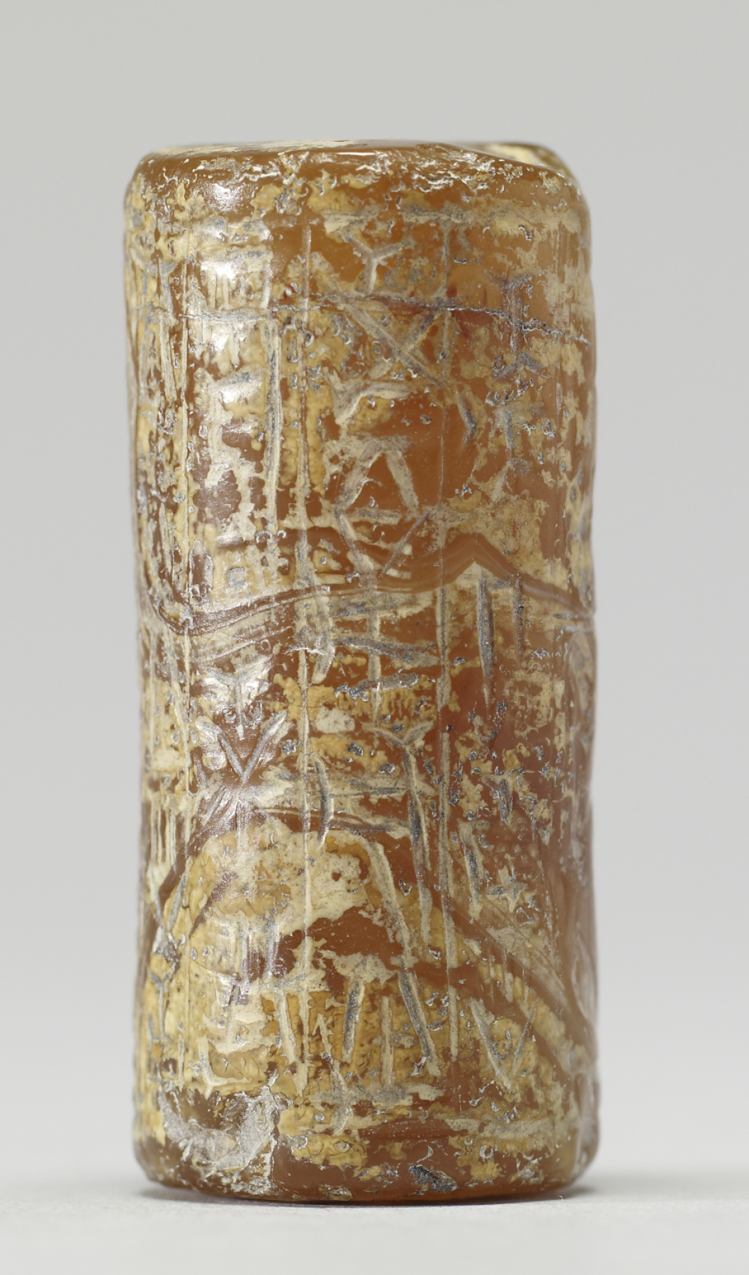 The scene on this seal depicts a standing deity with beard wearing a long, flounced robe. He holds an elongated object in his hand, and the other arm is bent with his hand resting on his midriff. There is a cross in the field in front of him, and a kneeling worshipper before him. Additionally, there are several symbols in the field above the worshipper. The scene also incorporates a cuneiform inscription in seven registers.